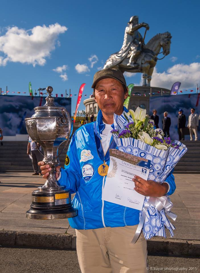 Монгол: Aeromodelling Free Fight F1B World Champion 2016